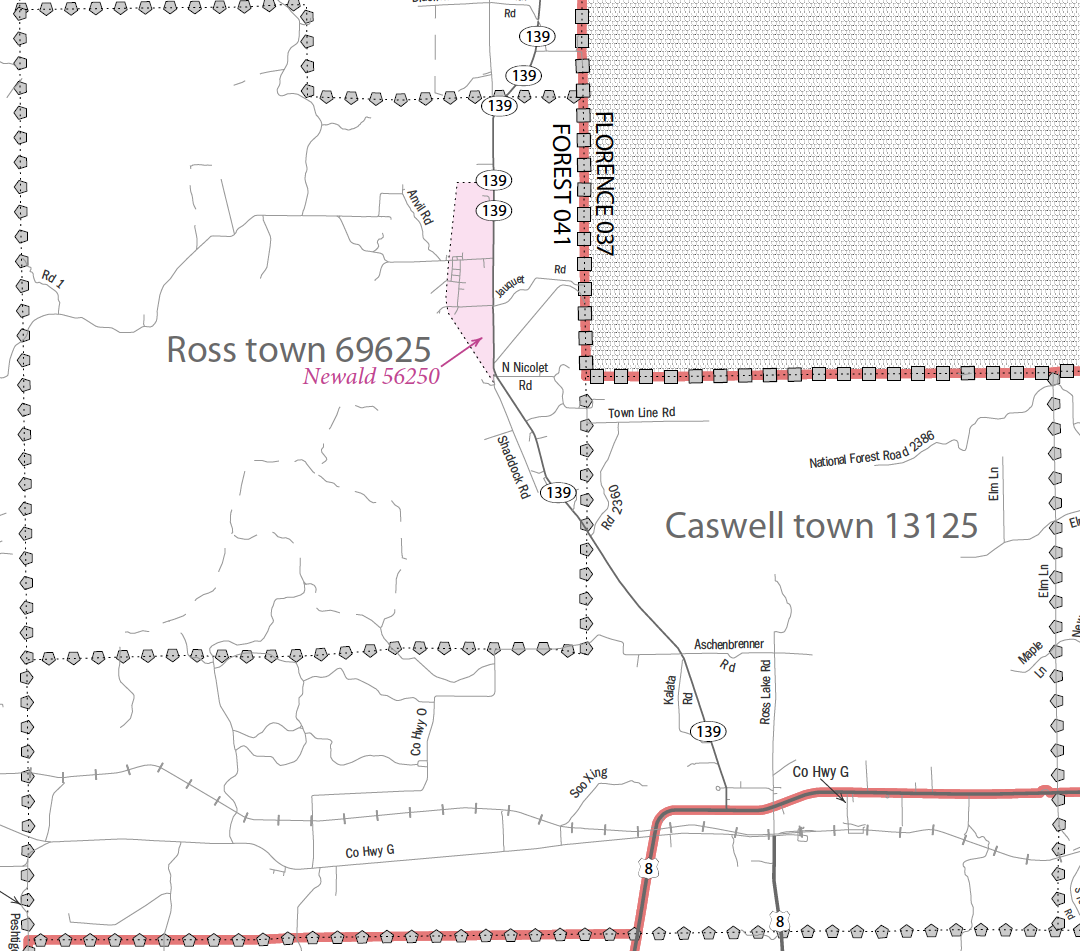 2010 Census Reference Map for the Towns of Ross and Caswell in Forest County, WI. Cropped from Forest County (PDF)